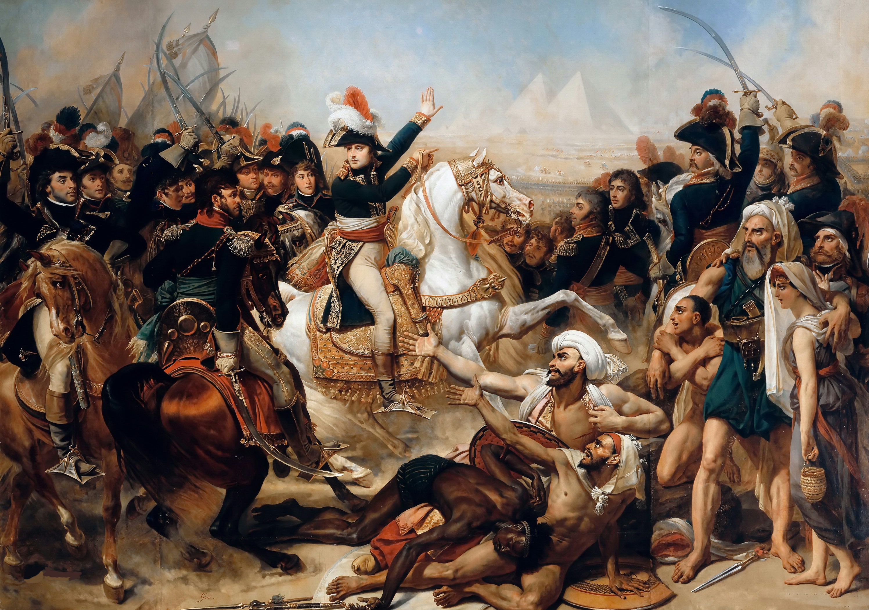 Battle of the Pyramids, July 21, 1798, oil on canvas 389 x 311 cm